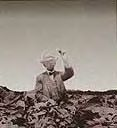 Image of Puerto Rican agriculturist Fermin Tanguis. Tanguis died in 1930 and this image is pre-1920, therefore copyright laws do not apply